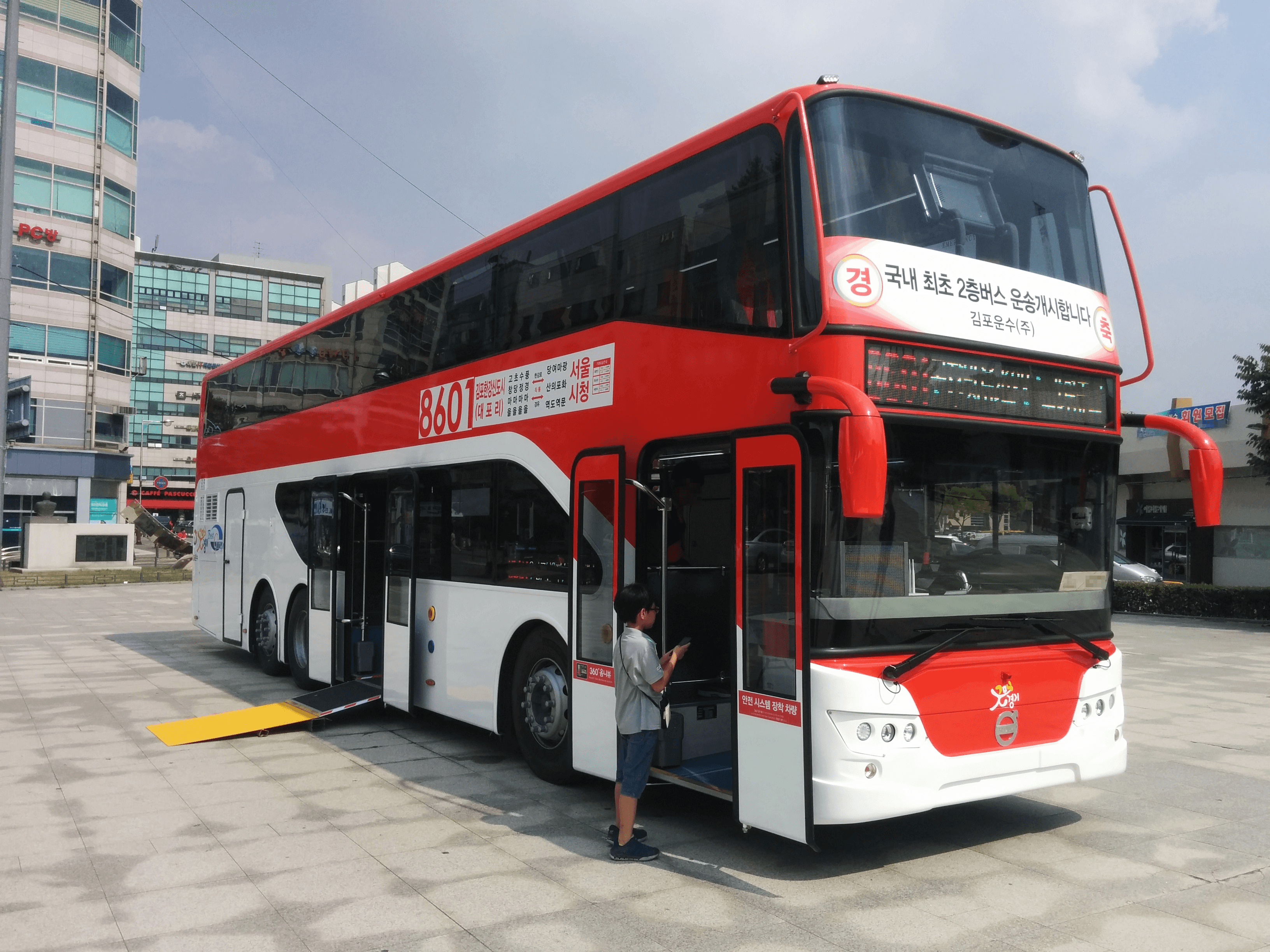 Front-right side of Daji-bodied Volvo B8RLE Double-decker bus.